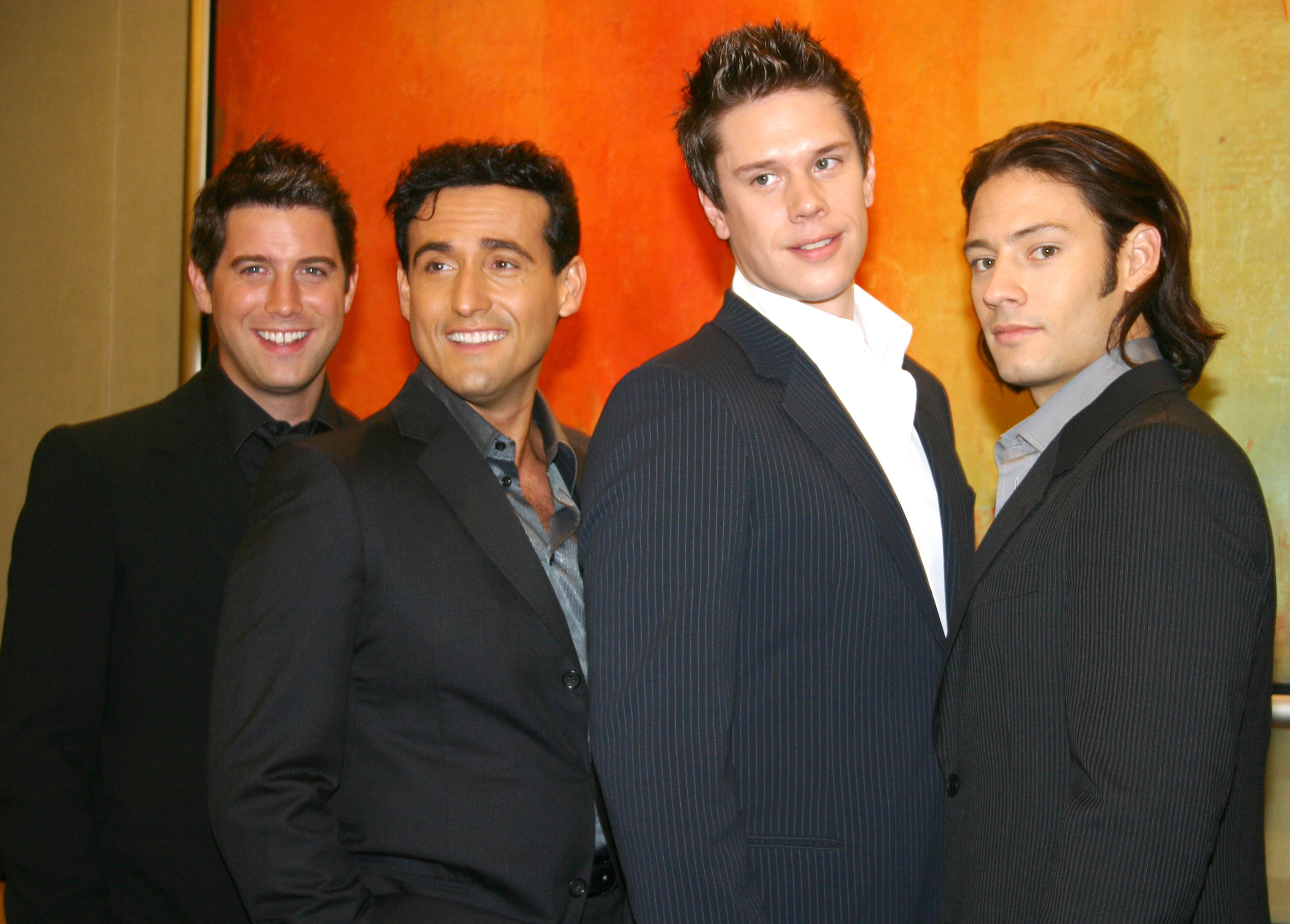 Il Divo in Hong Kong 2005 from L-R :Sébastien,Carlos,David and Urs